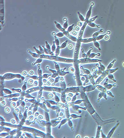 Conidiophores of Trichoderma harzianum, conidiogenesis is blastic-phialidic